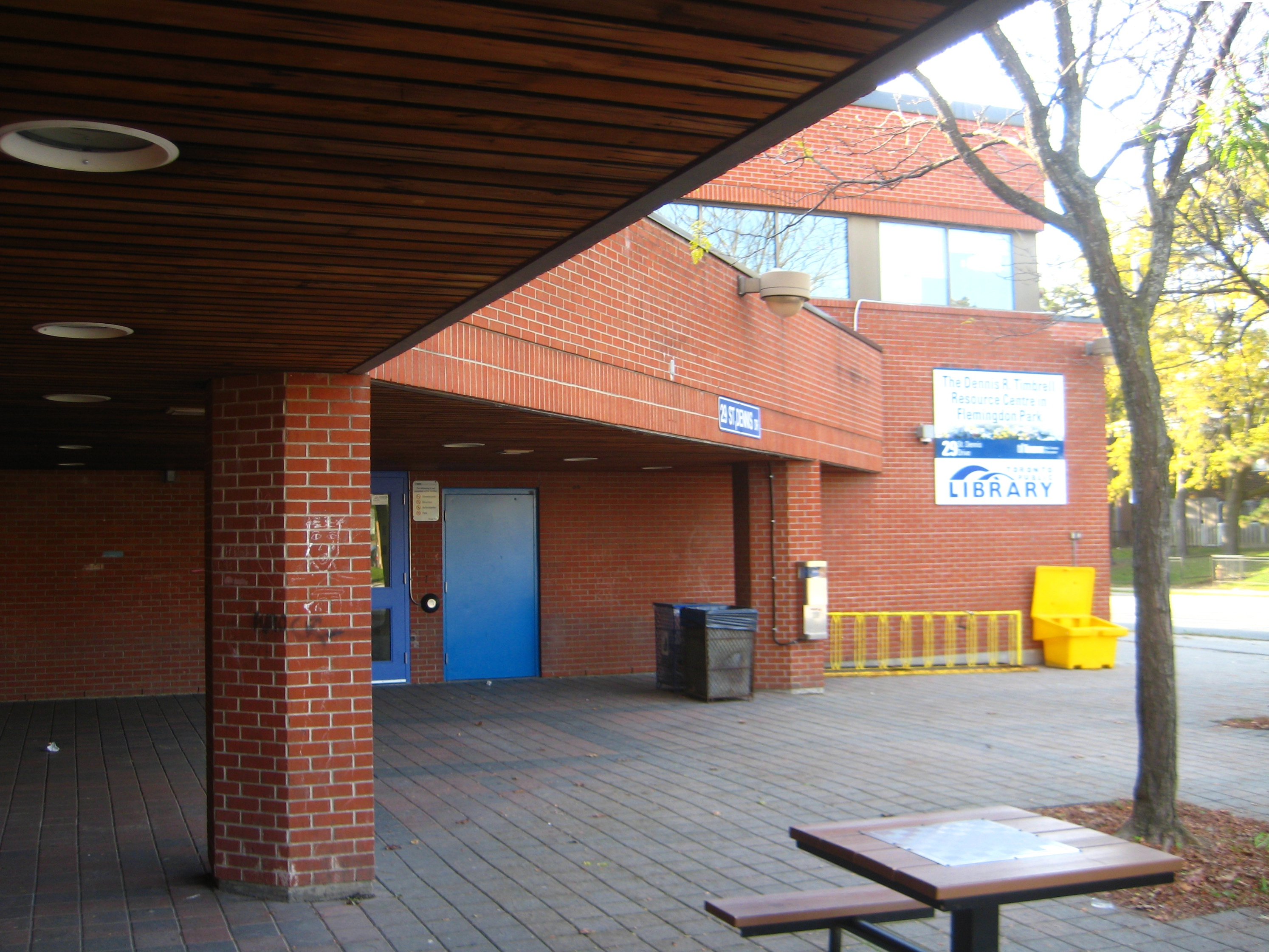 Flemingdon Park Toronto Public Library branch